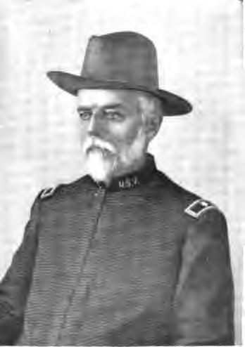 Brigadier General Roy Stone from "War Time Snapshots" in Munsey's Magazine, Vol. XX No. 1 (October 1898). pg. 24.